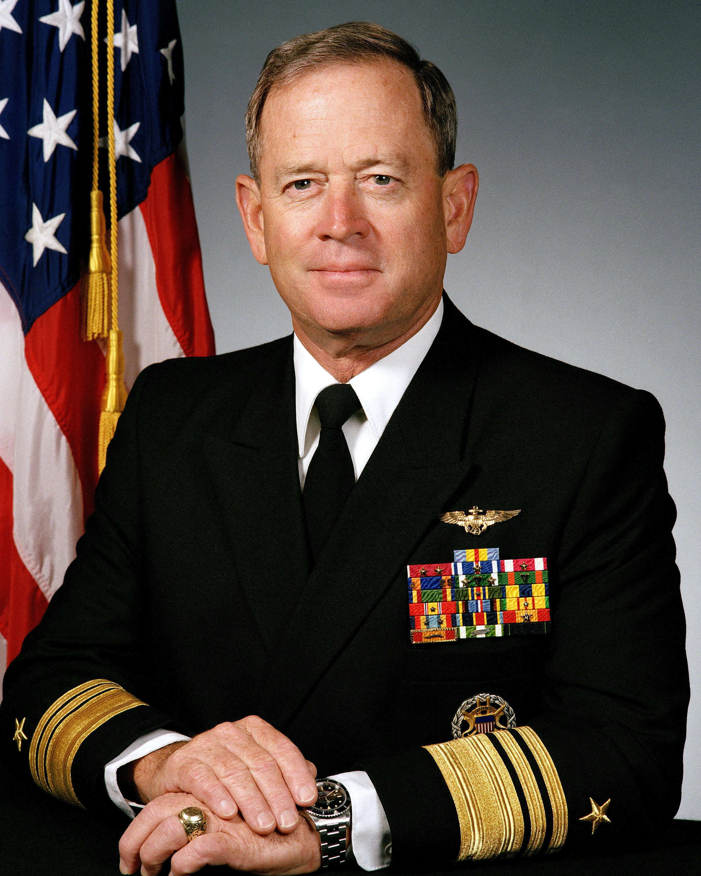 Leighton Smith, admiral, U.S. Navy.